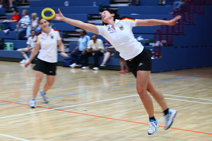 Ringtennis in action during the 2010 World Championships (women's doubles).